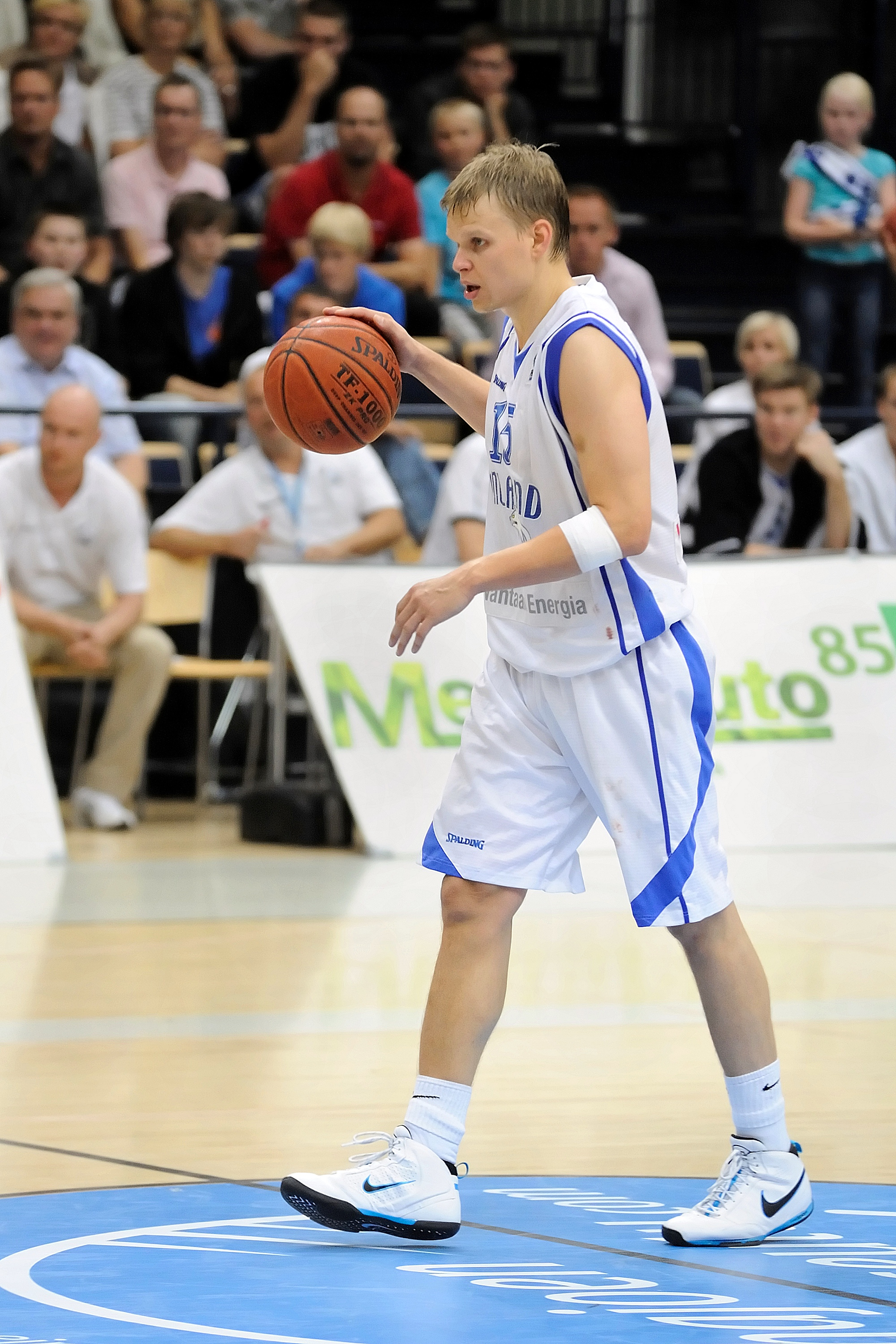 Basketball player Teemu Rannikko playing for Finland against Italy at Energia Areena in Vantaa, Finland.